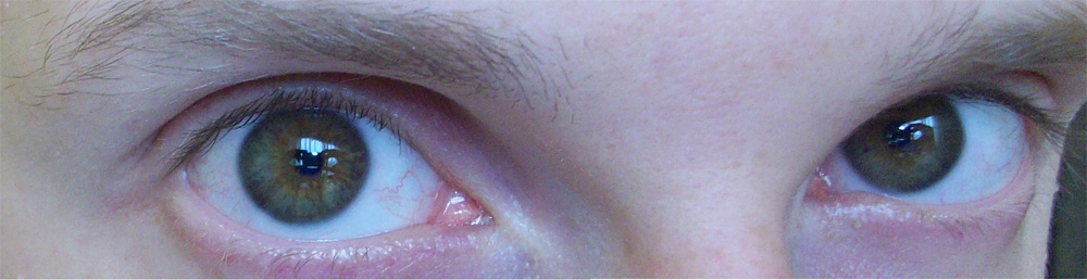 Picture showing dark green eyes with golden-brown areola of pupil. These are my own eyes.